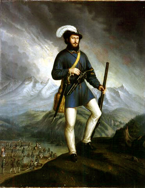 Cpt. Ján Francisci with Slovak volunteers on Myjava during Slovak Uprising of 1848-49